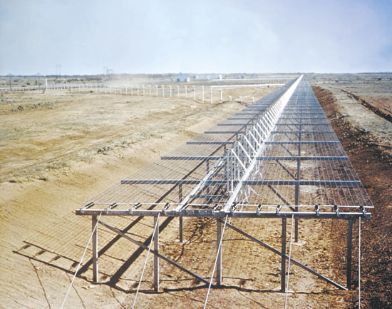 A two-mile array used to create part of the Air Force Space Surveillance System, aka Space Fence, with similar areas located throughout the southern United States. Source 14a from Image gallery tp this article in the June 2001 issue of All Hands Magazine.